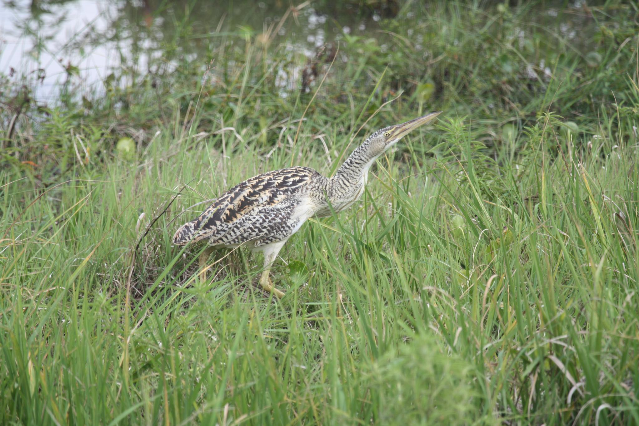 A Pinnated Bittern (also known as the South American Bittern) in Mexico.